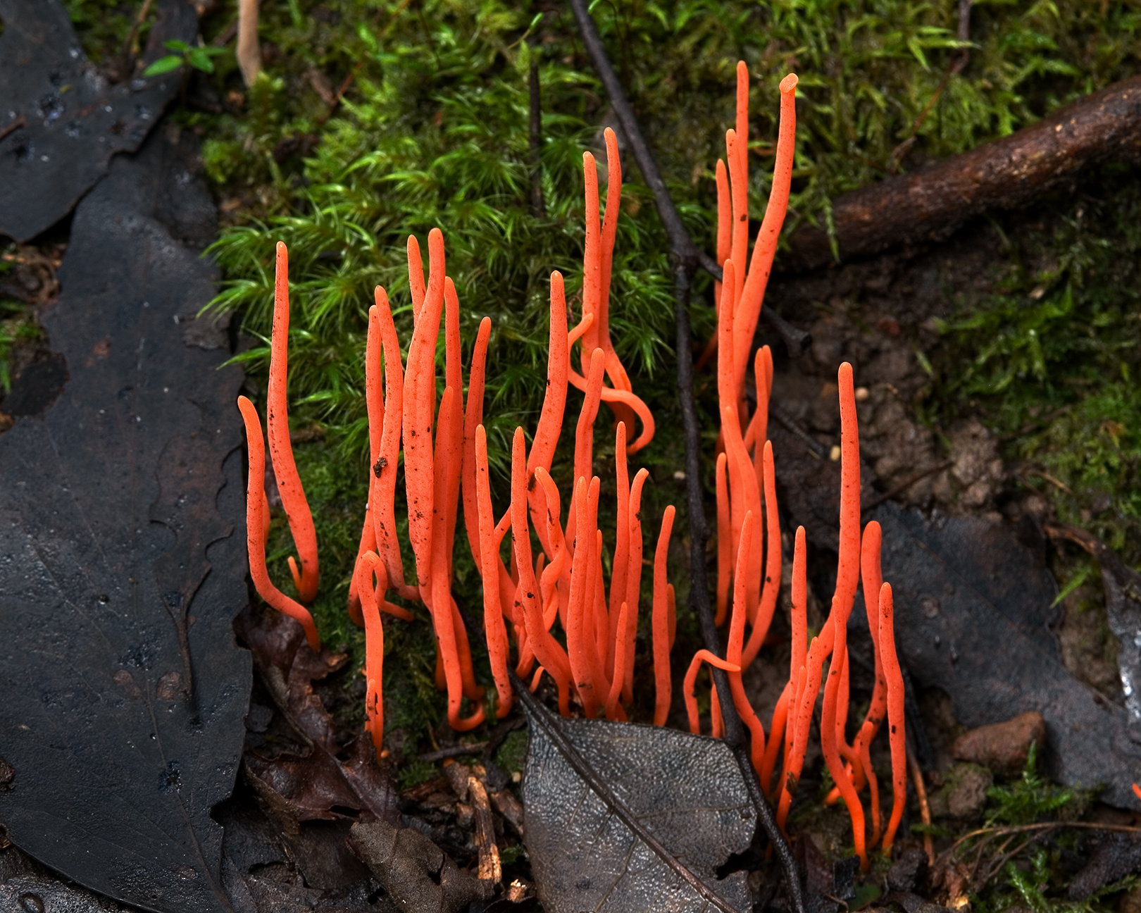 Clavulinopsis corallinorosacea (?) – An orange coral fungus (Clavulinopsis sulcata (miniata), order of Cantharellales) growing on forest floor in Mount Field National Park, Tasmania, Australia.